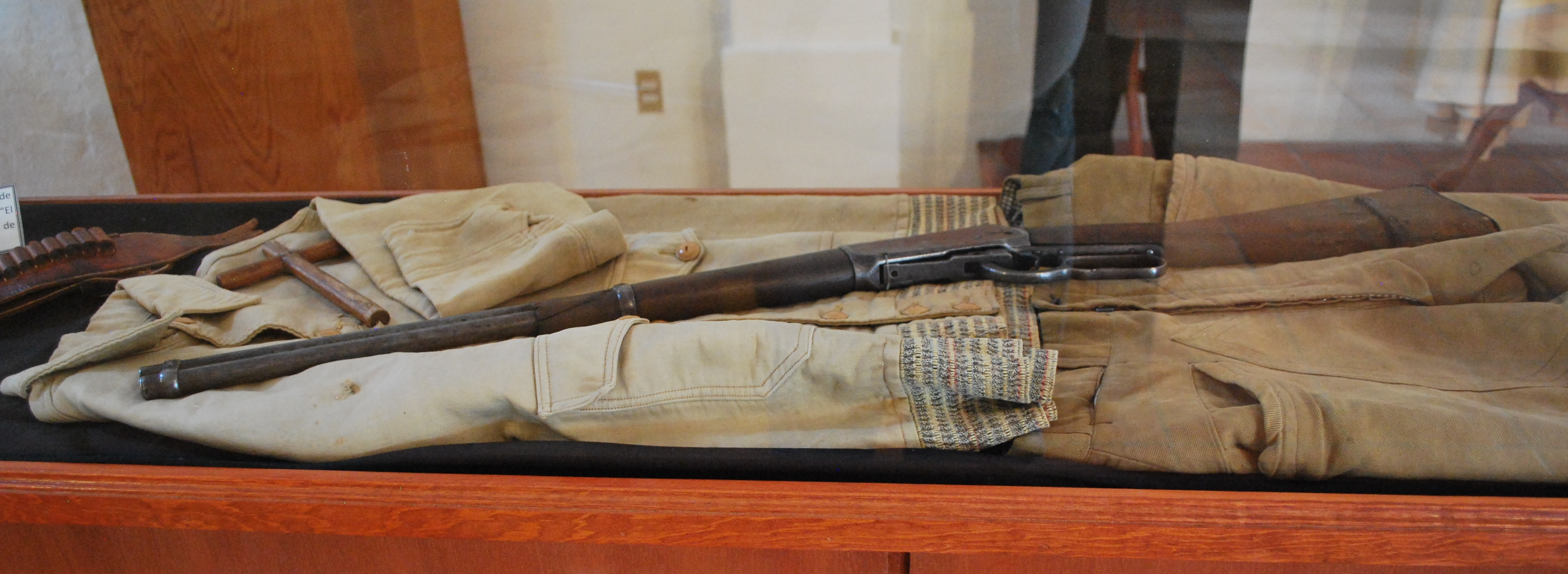 Belongings of Cristero general Victoriano Ramirez at the mummy museum in Encarnacion de Diaz, Jalisco